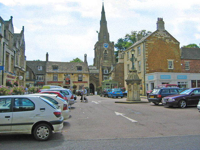 Market Place, Uppingham, Rutland. The parish church of Saints Peter and Paul overlooks the market place.